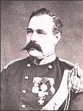 Willem Hoijel